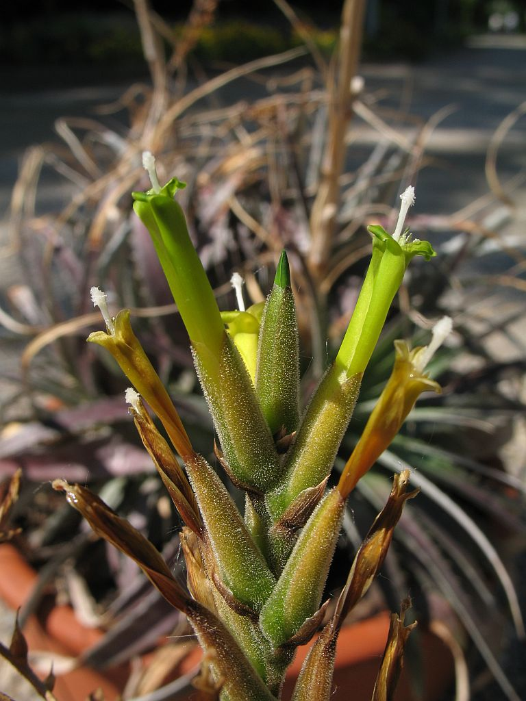 Deuterocohnia haumanii in cultivation at the Botanical Garden of Heidelberg, Germany.